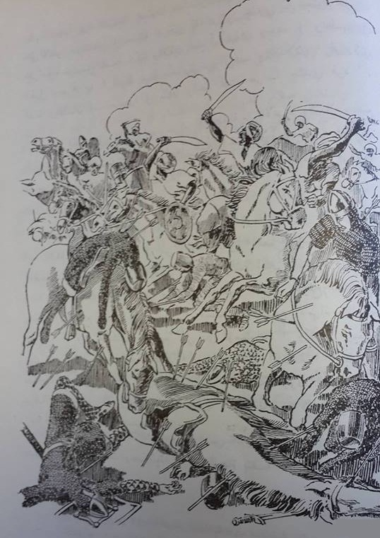 A Battle between Muslims and Crusaders.